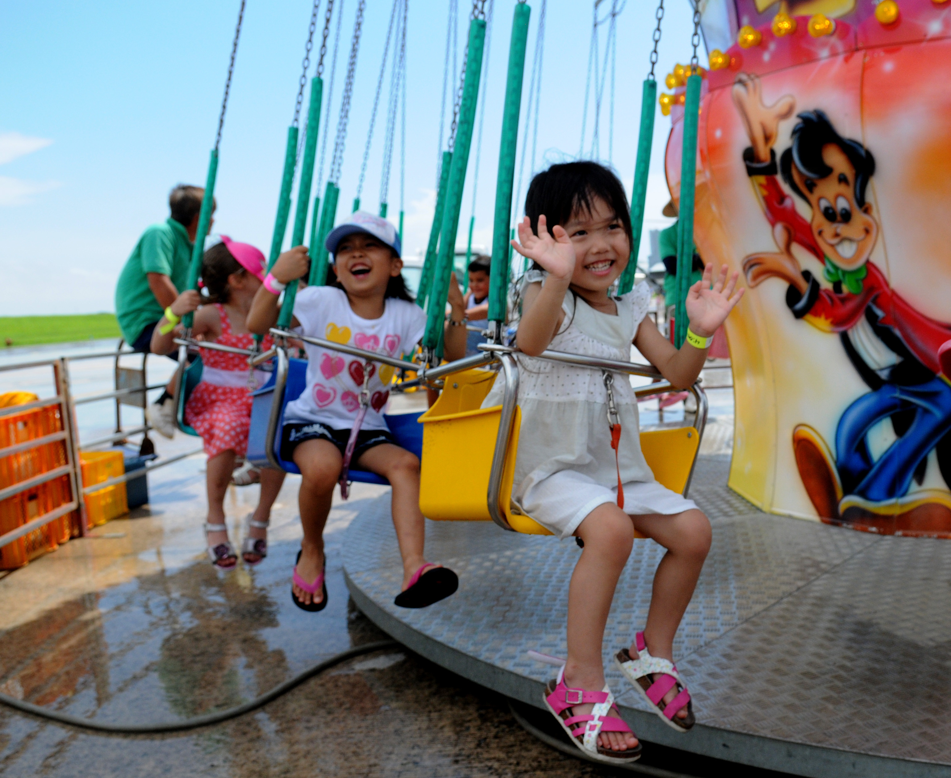 Local children ride the carnival swing during AmericaFest 2014 open house at Kadena Air Base, Okinawa, Japan, June 29, 2014. The two-day event was designed to build a positive relationship between U.S. military forces and the local population in a fun and informal environment. (U.S. Air Force photo by Airman 1st Class Keith James/Released)